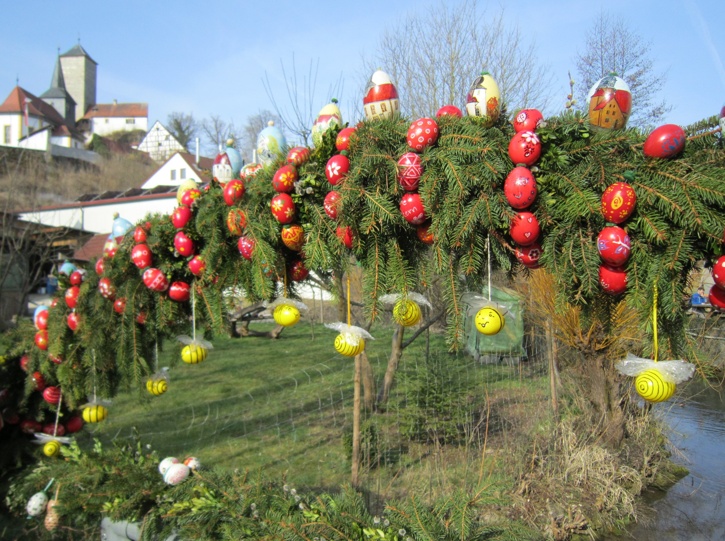 Easter bridge over Aufseß River in Aufseß (Upper Franconia); in the background Unteraufseß Castle